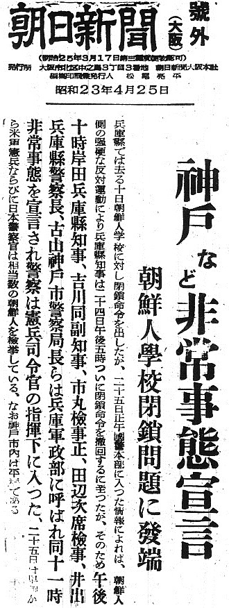 Asahi Shimbun (Osaka) Extra Edition newspaper clipping (25 April 1948 issue)